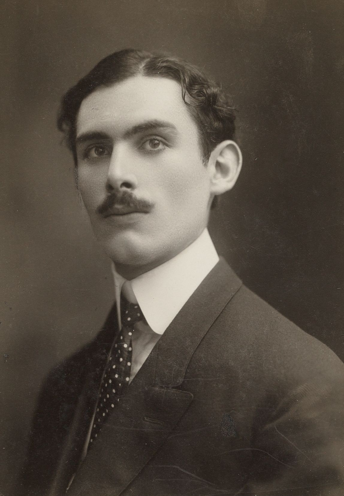 Cabinet card image of American stage and film actor Lew Cody (1884-1934), noted as "Lewis J. Cody" here. From a collection donated in 1918. TCS 1.5328, Harvard Theatre Collection, Harvard University